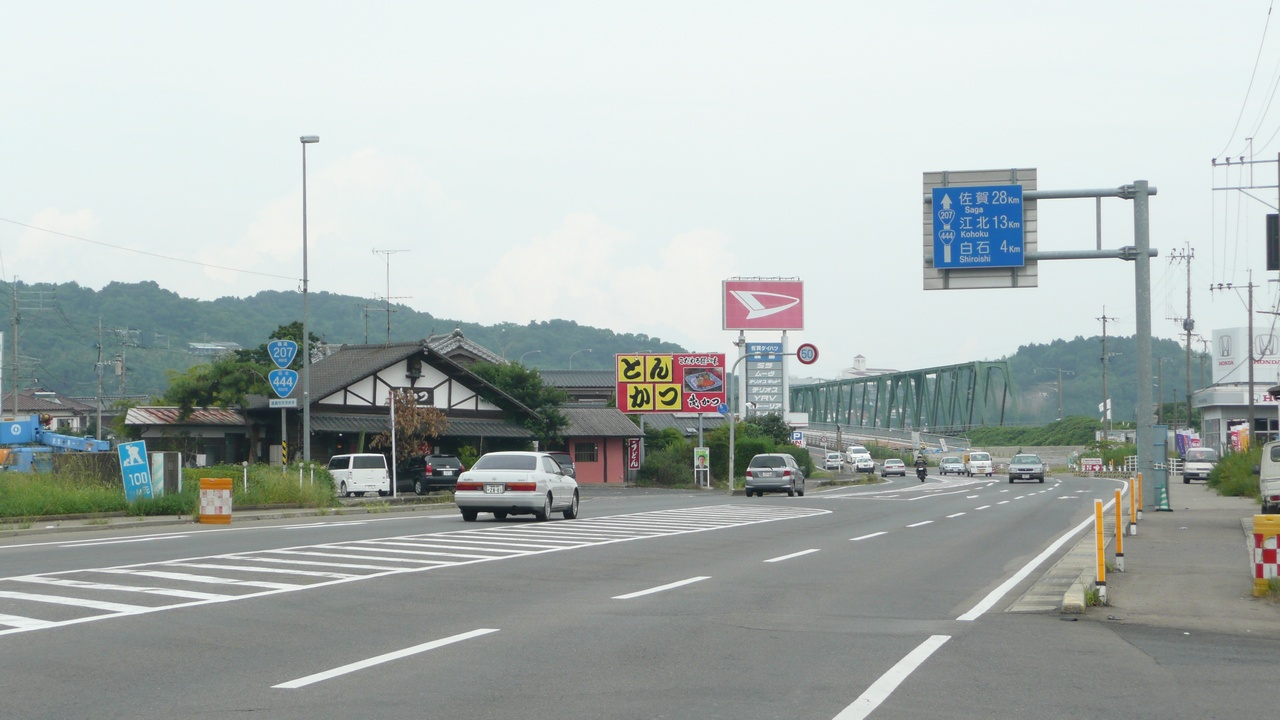 National Route 207 Kashima Bypass (Kashima City, Saga, Japan)